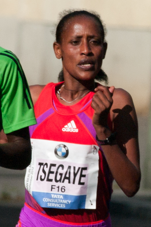 Ethiopian runner Tirfi Tsigaye at the Berlin Marathon 2012. Here on Bülowstraße, between Kilometers 36 and 37.